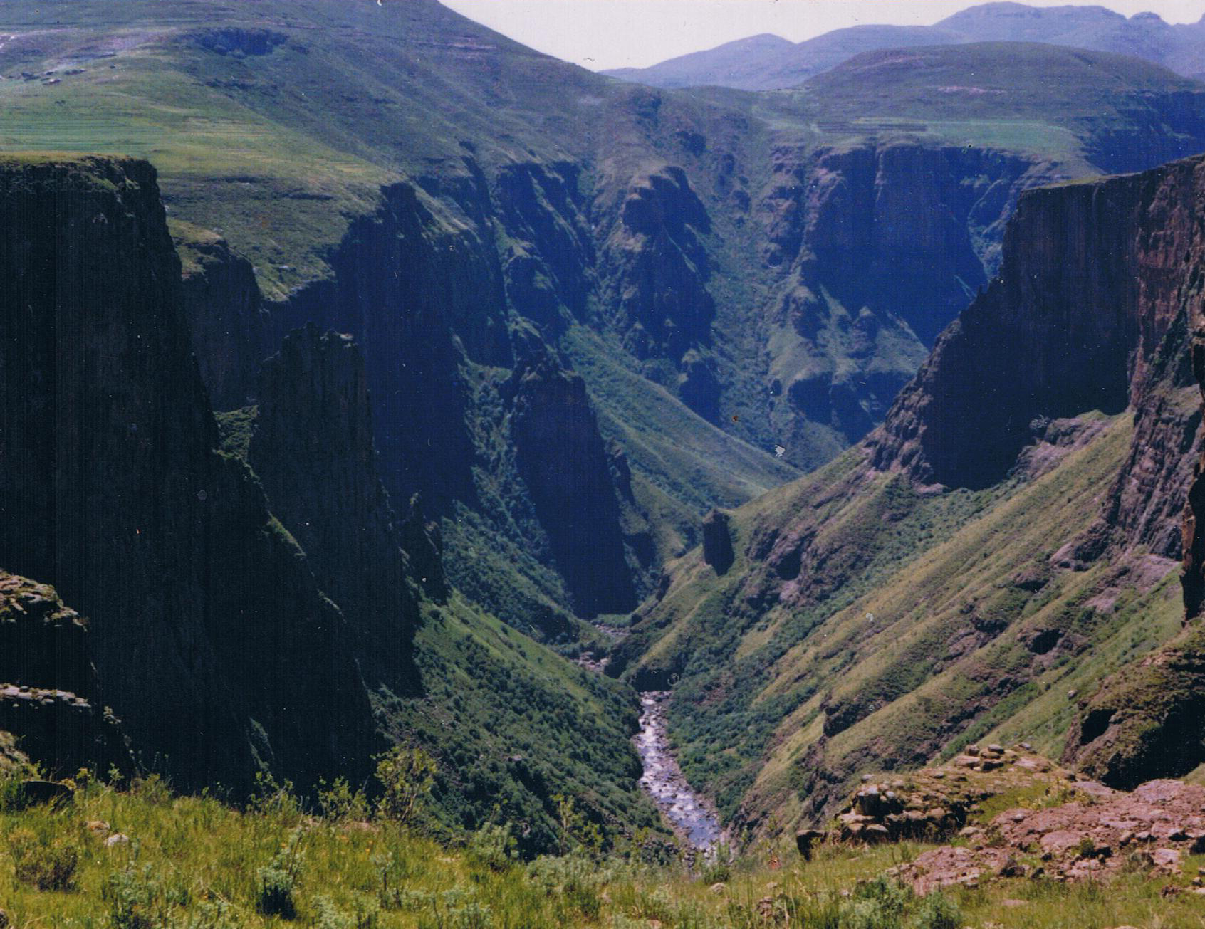 Semonkong, Lesotho, valley of Maletsunyane river below the Maletsunyane Falls